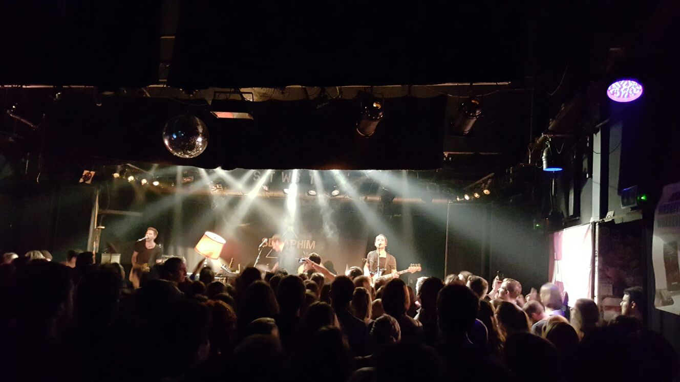 Debris Release Party in der Linzer Stadtwerkstatt